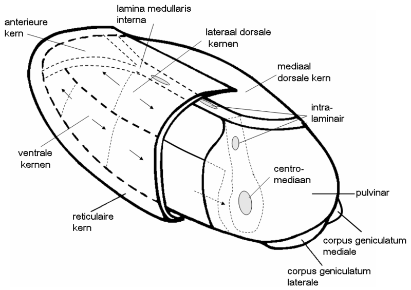 Parts of the thalamus.